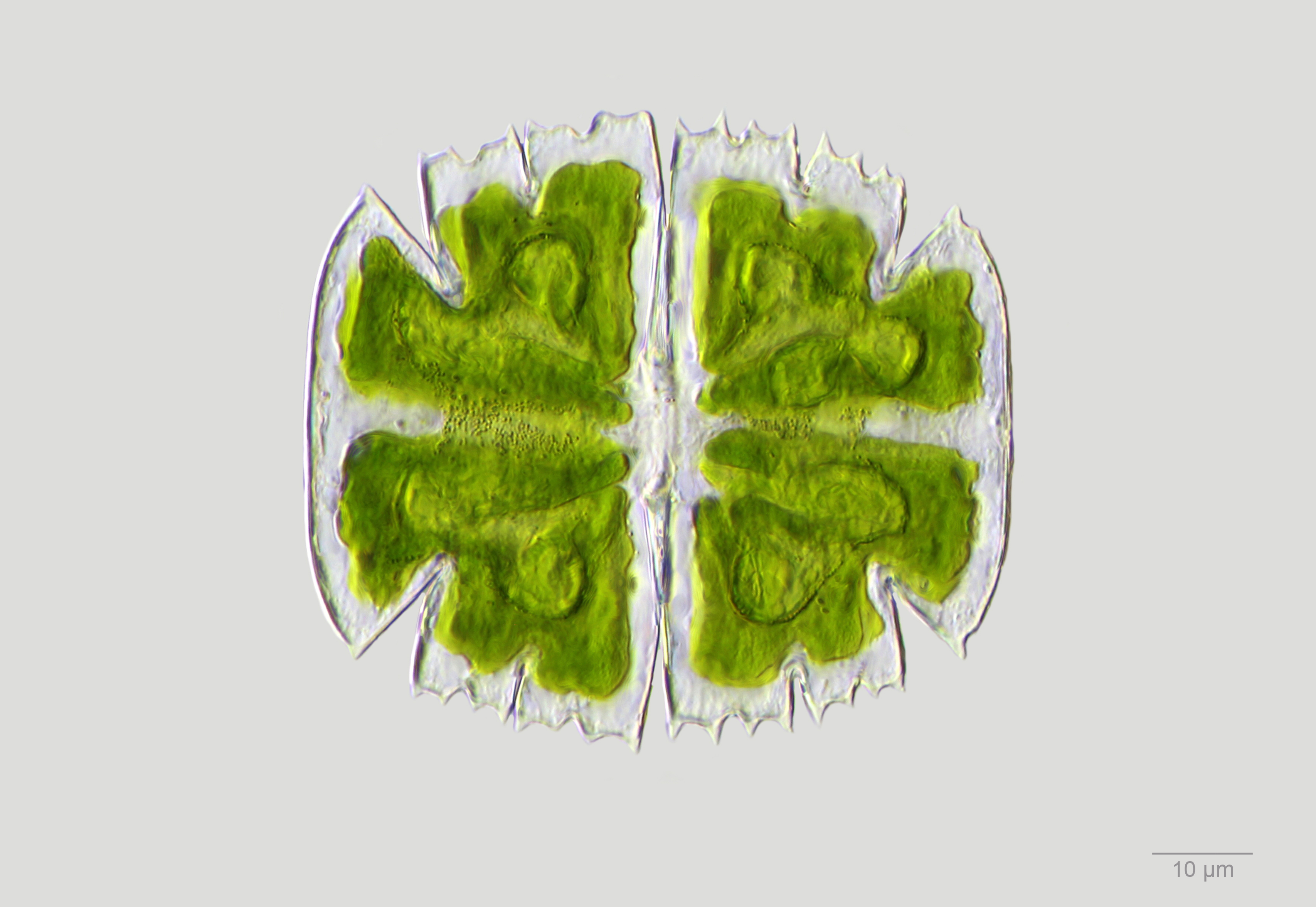 Microalga Micrasterias truncata Brébisson ex Ralfs. Cell length (long side) – 95 µm The genus Micrasterias includes a lot of highly differentiated and beautiful Desmidiales. It’s a unicellular microalga with dual semi-cell structure. The semi-cells are separated by deep cuts on three blades: polar and two sidepieces. Each semi-cell contains a single large axial chloroplast with indented edges and numerous pyrenoids. Light microscopy, oblique illumination